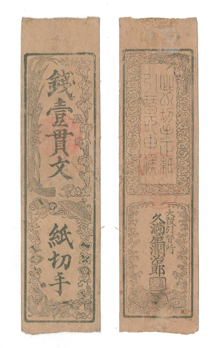 A local banknote issued by a Japanese domain during the Edo Period denominated in "a String of Cash Coins".